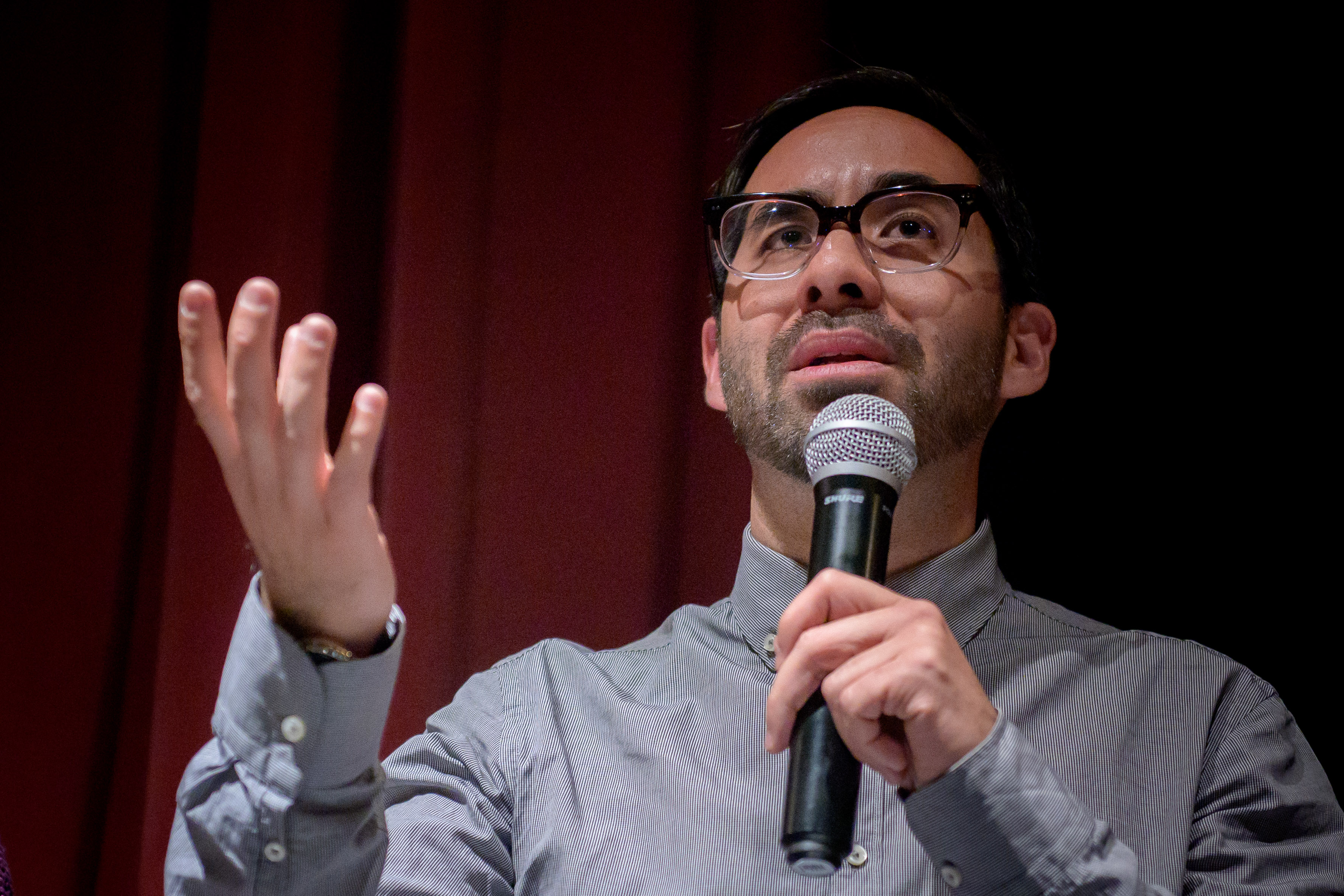 Samuel Kishi Leopo, Regisseur des Preisträgerfilms "Los Lobos"/“Die Wölfe“ Foto: Stephan Röhl